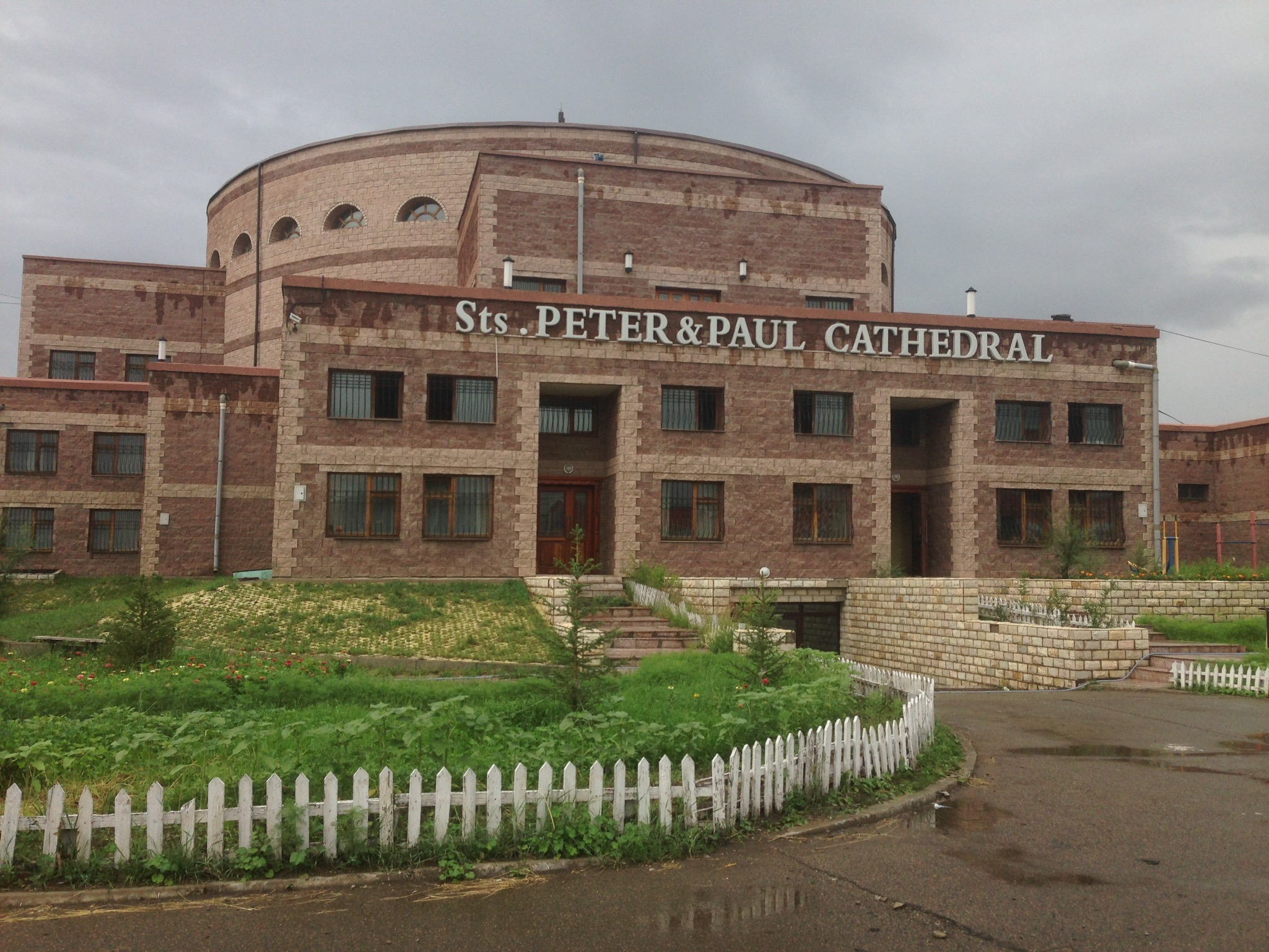 Roman Catholic Cathedral of Apostolic Prefecture of Ulaanbaatar